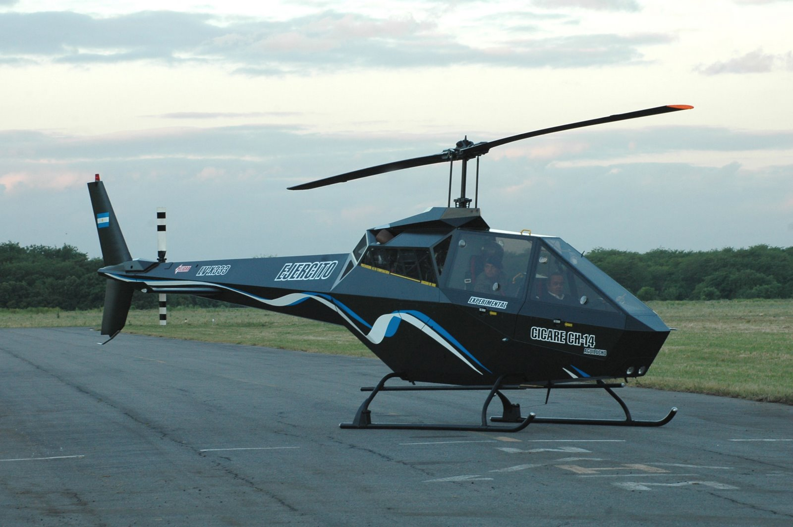 The Argentine light helicopter CH-14 'Aguilucho' built by Cicare.